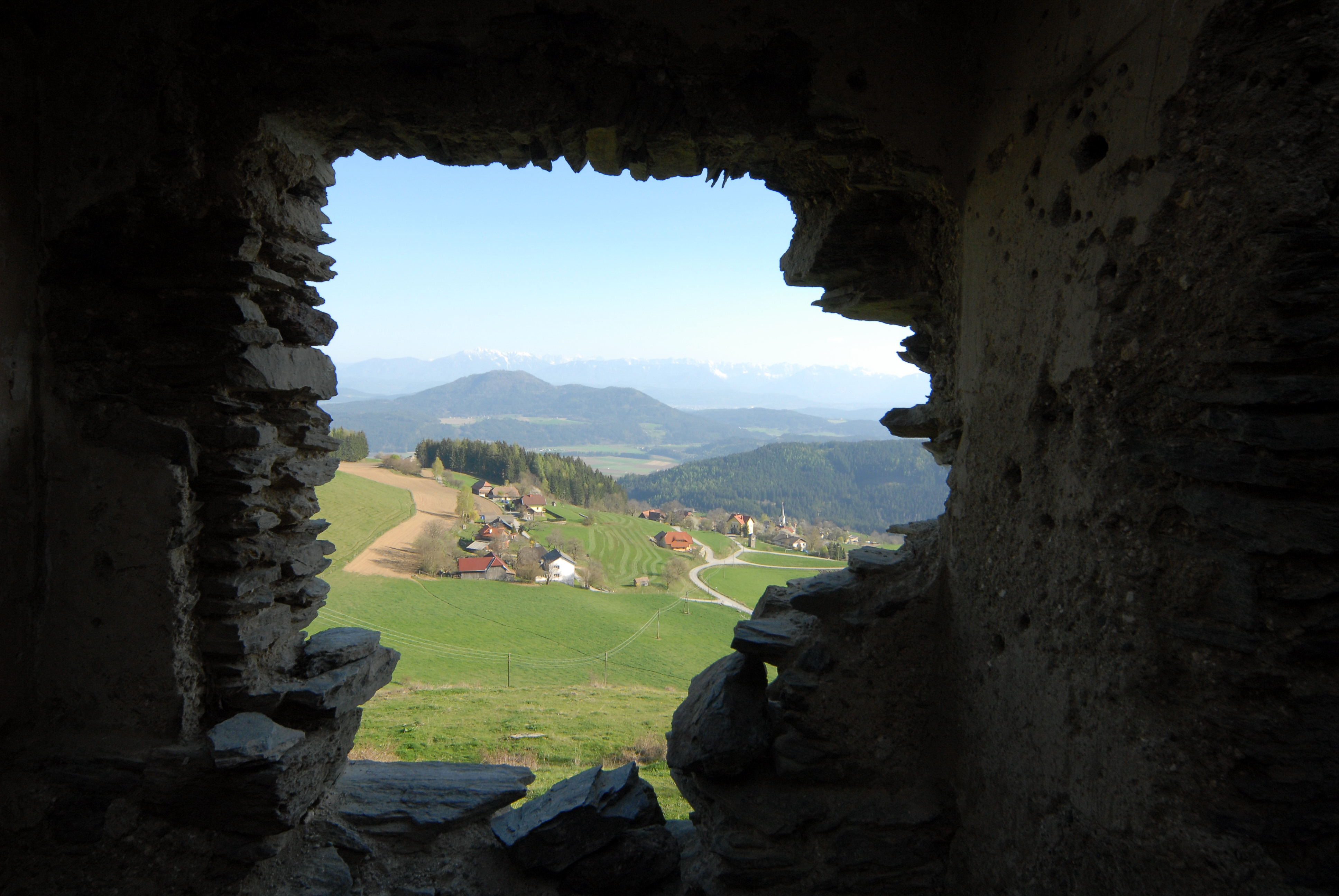 Keep of the castle ruin in Gradenegg, market town Liebenfels, district Sankt Veit an der Glan, Carinthia, Austria, EU